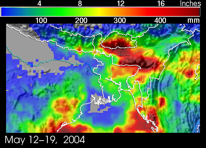 Unnamed tropical storm 02B came ashore along the northwest coast of Burma (Myanmar) on the 19th of May 2004 bringing with it strong winds and heavy rains. The system formed in the northern Bay of Bengal on May 17, and moved east as a strong tropical storm with maximum sustained winds estimated at 60 knots (69 mph) by the Joint Typhoon Warning Center as it crossed the coast of Burma. The system came ashore near the port city of Sittwe not far from the border with Bangladesh. The TRMM-based, near-real time Multi-satellite Precipitation Analysis (MPA) at the NASA Goddard Space Flight Center monitors rainfall over the global tropics. MPA rainfall totals for the region surrounding the northern Bay of Bengal are shown for the period 12-19 May 2004. Up to 20 inches of rain (darkest red areas) fell over the foothills and southern slopes of the Himalayan Mountains over northeastern Indian and Bhutan and along the north east coastline of the Bay of Bengal over far western Burma and southern Bangladesh. The heavy rain over western Burma and southern Bangladesh was a direct result of tropical storm 02B, while most of the heavy rain farther north along the slopes of the Himalayas was a result of low pressure centered over northern India and Nepal drawing moisture up from the Bay of Bengal earlier in the period. TRMM is a joint mission between NASA and the Japanese space agency JAXA.